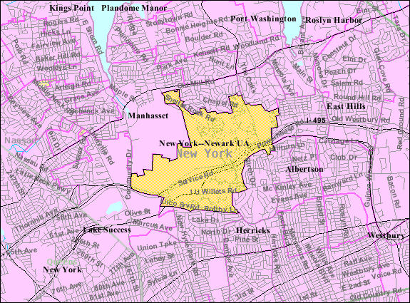 U.S. Census 2000 reference map for North Hills, New York